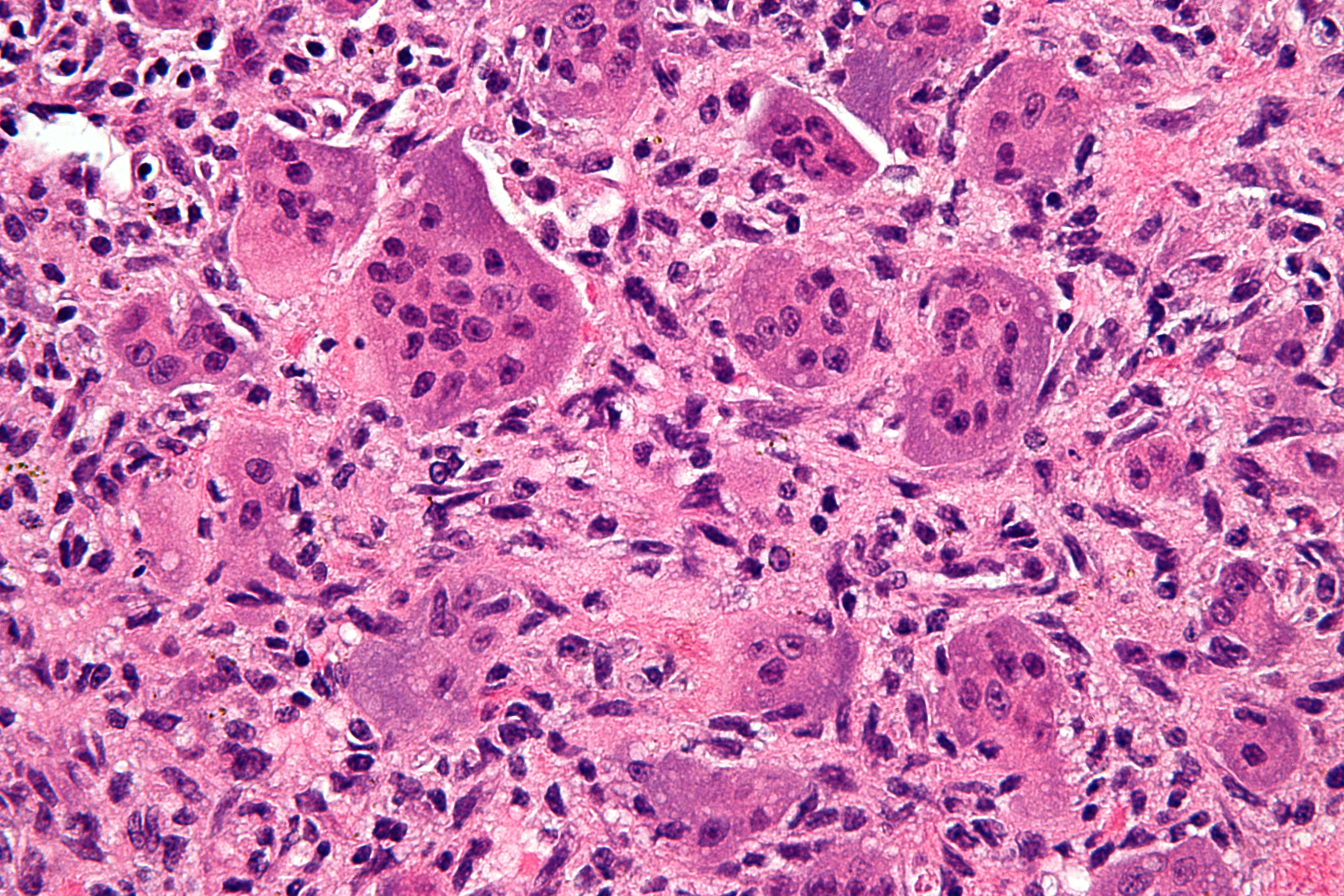 Very high magnification micrograph of a giant cell tumour of bone, also giant cell tumor of bone. H&E stain. The micrographs show the characteristic giant cells with nuclei that have a similar appearance to the surrounding (mononuclear) cells. Related images Low mag. Intermed. mag. High mag. Very high mag.